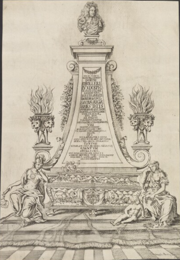 Bolle Luxdorph copperplate engraving